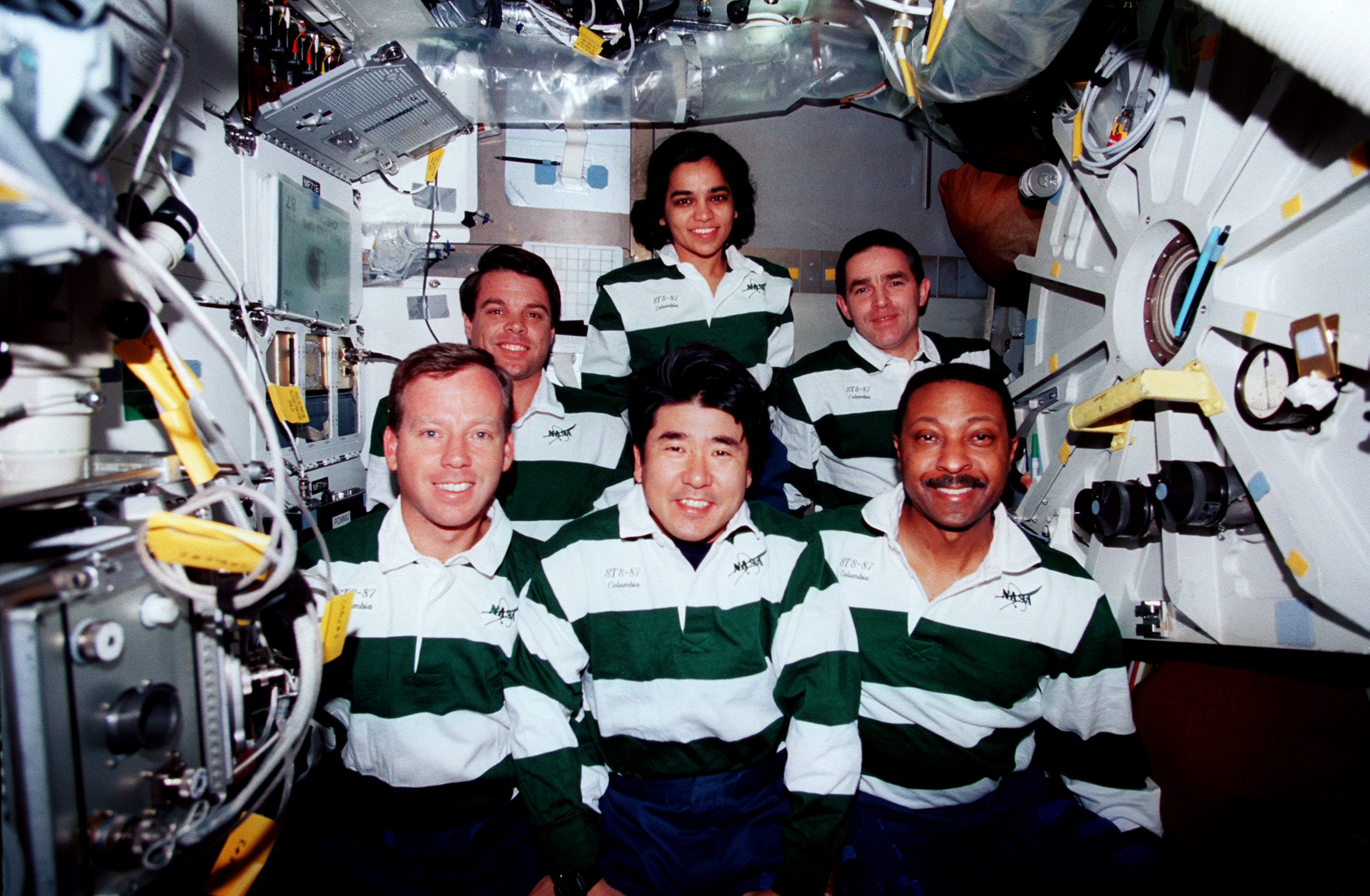 On the Space Shuttle Columbia's middeck, the crewmembers for the mission pose for the traditional in-flight portrait. In front, left to right, are astronauts Steven W. Lindsey, pilot; Takao Doi, mission specialist representing Japan's National Space Development Agency (NASDA); and Winston E. Scott, mission specialist. In back are, from the left, astronauts Kevin R. Kregel, commander; and Kalpana Chawla, mission specialist; along with payload specialist Leonid Kadenyuk.